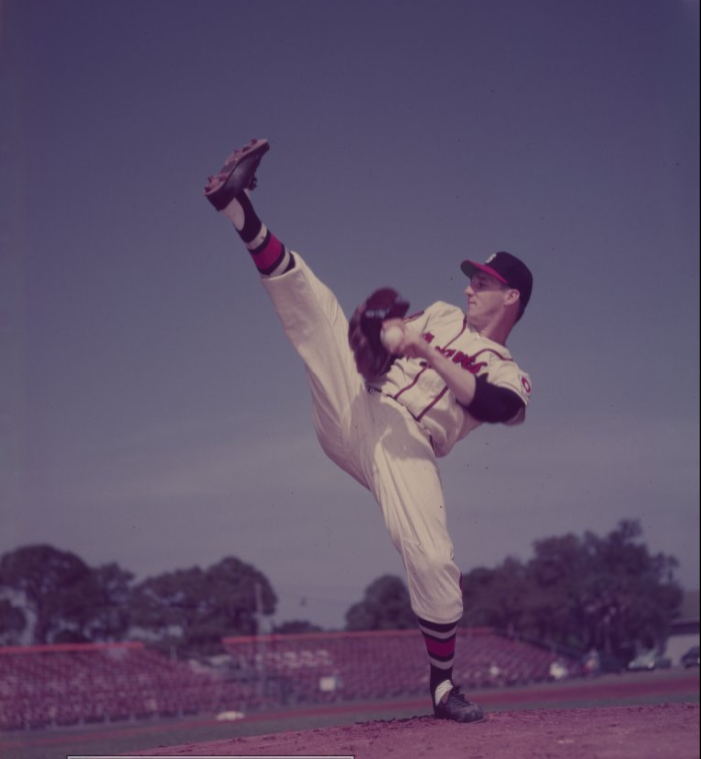 Slight crop by the uploader to remove the Hall of Fame watermark. Accession Number BL-291-60-7 Abstract A color transparency of Warren Spahn, wearing a Boston Braves uniform, posed pitching at Braves Field in Bradenton, Florida on March 21, 1952. Spahn is on the pitcher's mound mid-windup. His left leg is planted on the ground, while his right is raised high above his head. His torso leans back, and his left hand holds the baseball at chest level. His gaze looks towards home plate. Empty bleachers can be seen in the background. Date Created 1952-03-21 Copyright Date 1952 Photographer (Organization) Look Magazine Associated Names Rothstein, Arthur (Photographer) Look Magazine (Photographer) Subject—Person (Players) Spahn, Warren, 1921-2003 Subject – Team Boston Braves (Baseball team) Subject – Place McKenchnie Field (Bradenton, Fla.) Subject – Organization Major League Baseball (Organization) Subject – League National League of Professional Baseball Clubs Subject – Genre photographic materials color transparencies still image Subject - Topic Pitching (Baseball) Baseball Hall of Famers Pitchers (Baseball) Media Type projected Carrier Type slide Dimensions (standard) 3 x 4 in. Physical Location Photo Archives Sublocation BA PHT 011 Look Magazine photographic materials